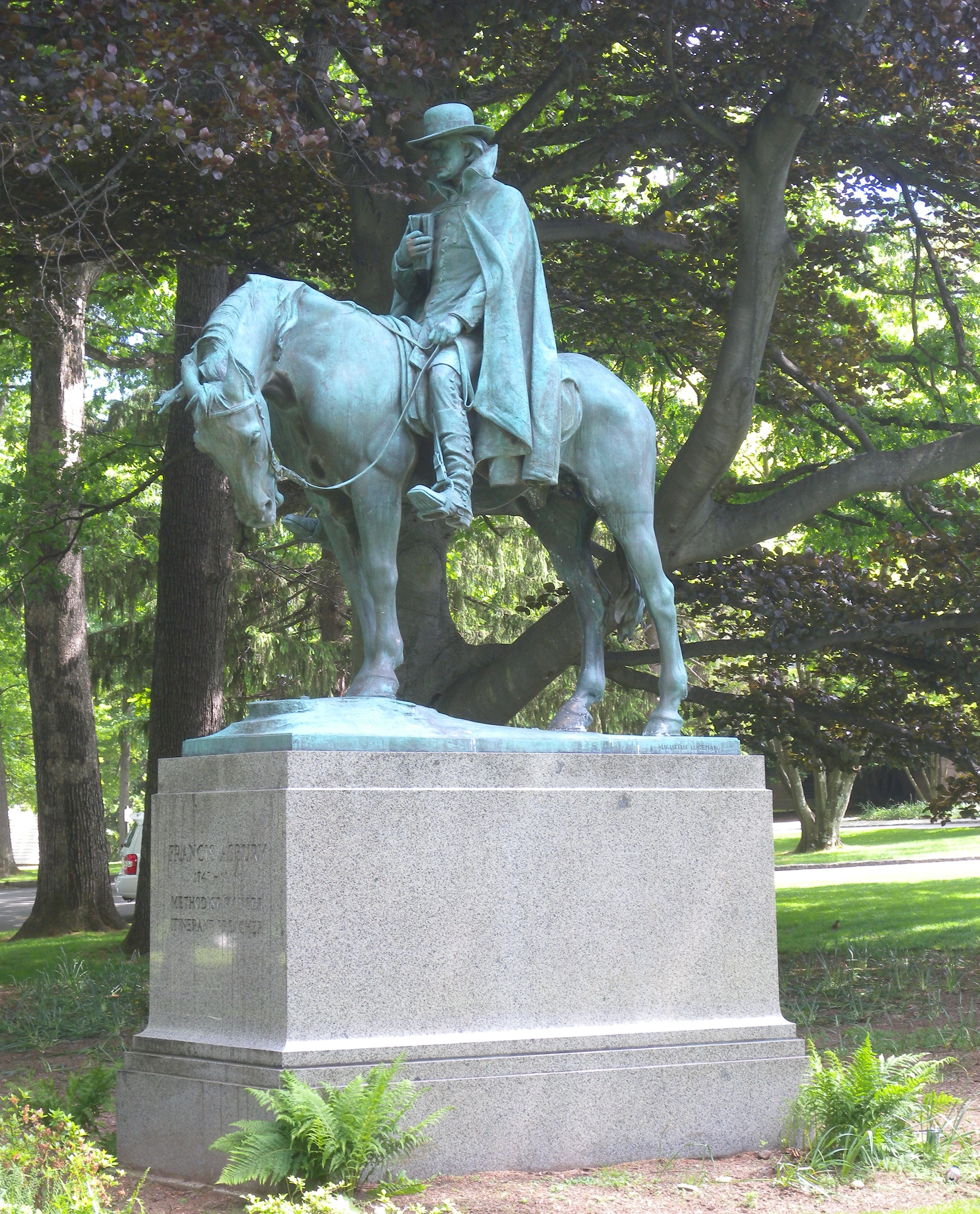 Looking southeast at F Asbury statue. See File:F Asbury pedestal Drew U jeh-2.jpg for pedestal inscription